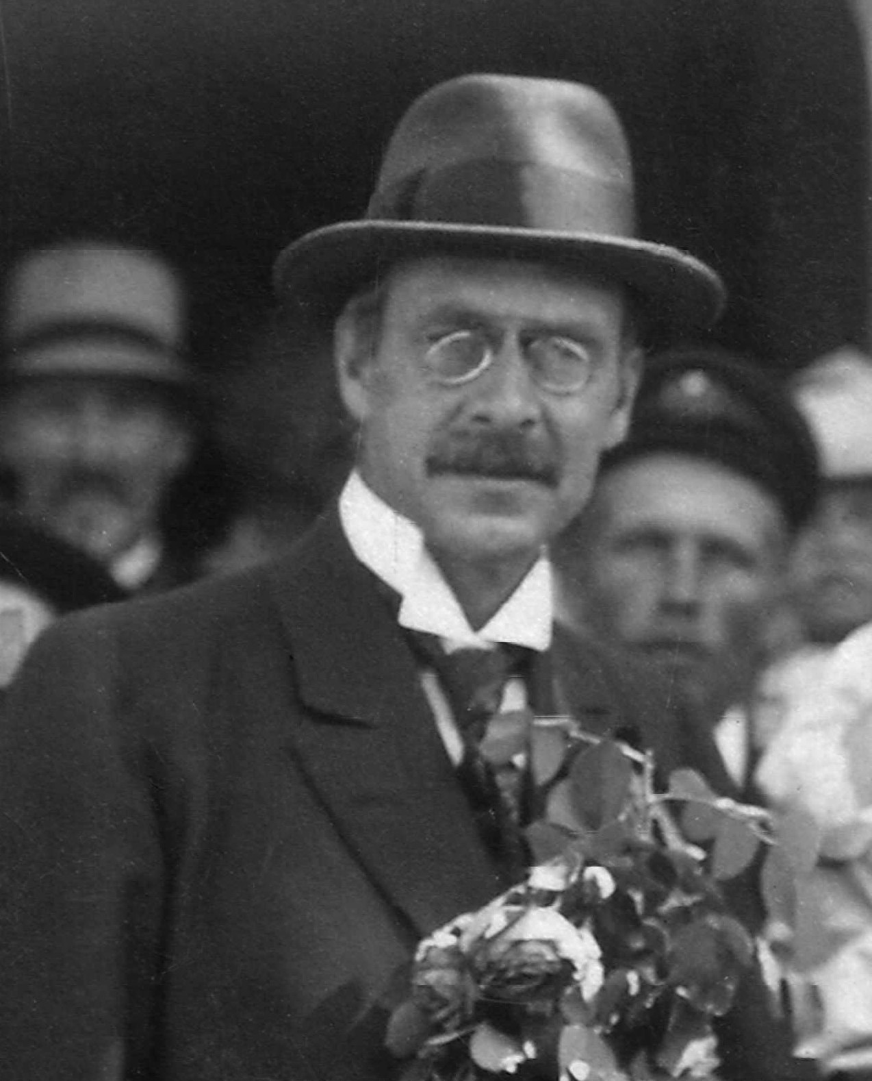 Carl Björkman photographed in Mariehamn in 1920.